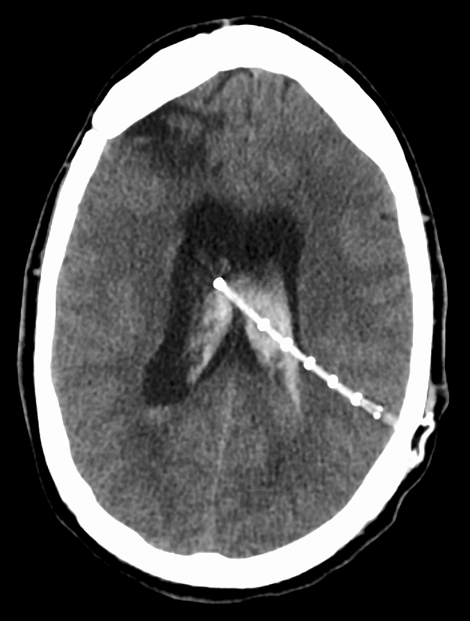 A ventriculoperitoneal shunt as seen on CT imaging